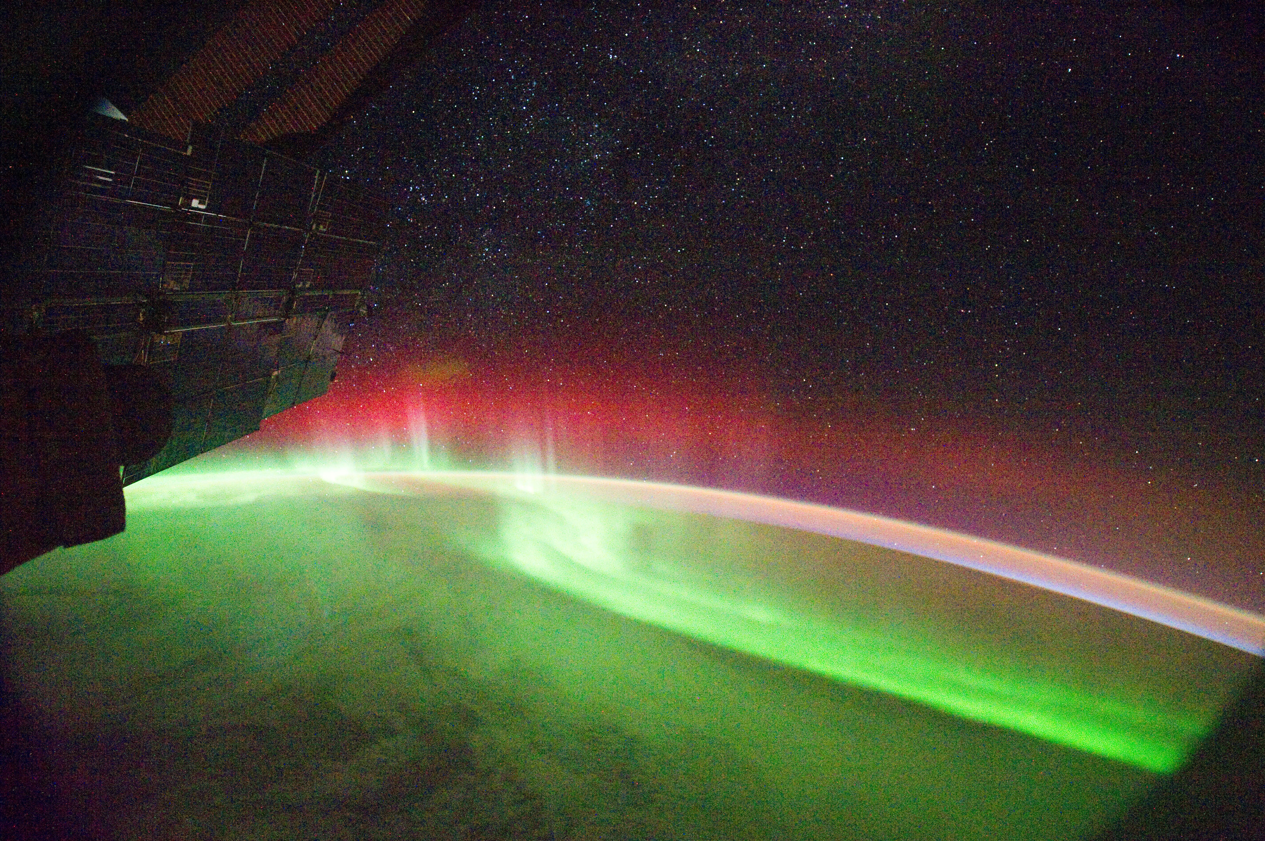 An image from the International Space Station shows a bright green and red aurora over our planet. The red coloring is reportedly caused by nitrogen in the Earth's atmosphere being bombarded with radiation from a solar flare.